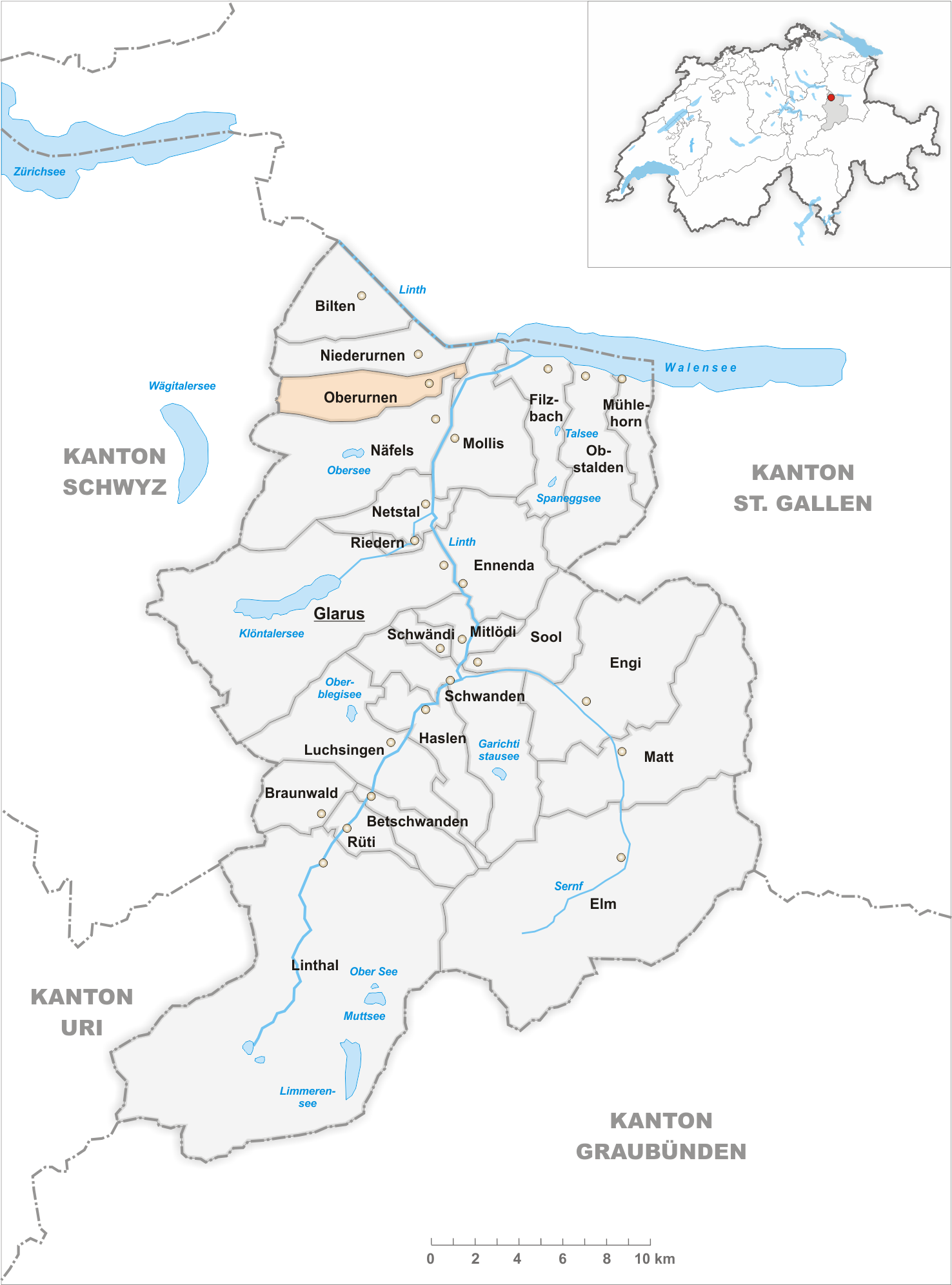 Municipality Oberurnen